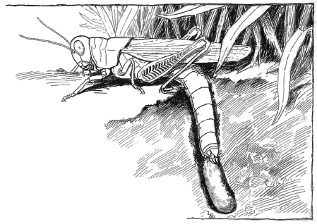 Figure from Chapter 1 of Insects, Their Ways and Means of Living by Robert Evans Snodgrass